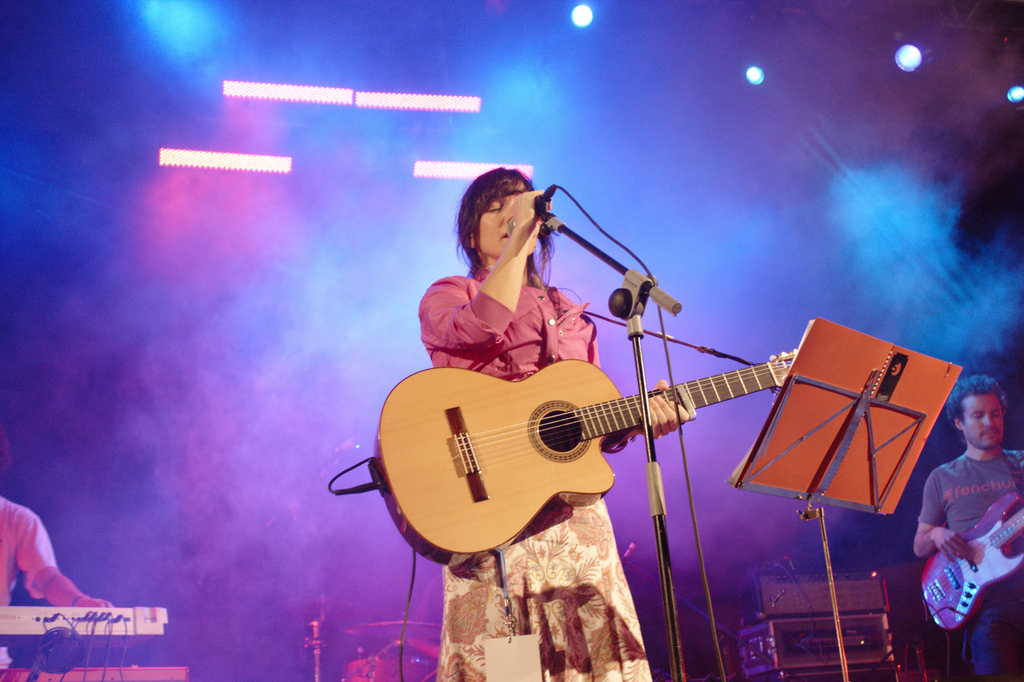 Portrait of the leader of the spanish indie pop group "La Bien Querida" Ana Fernández-Villaverde in a live concert